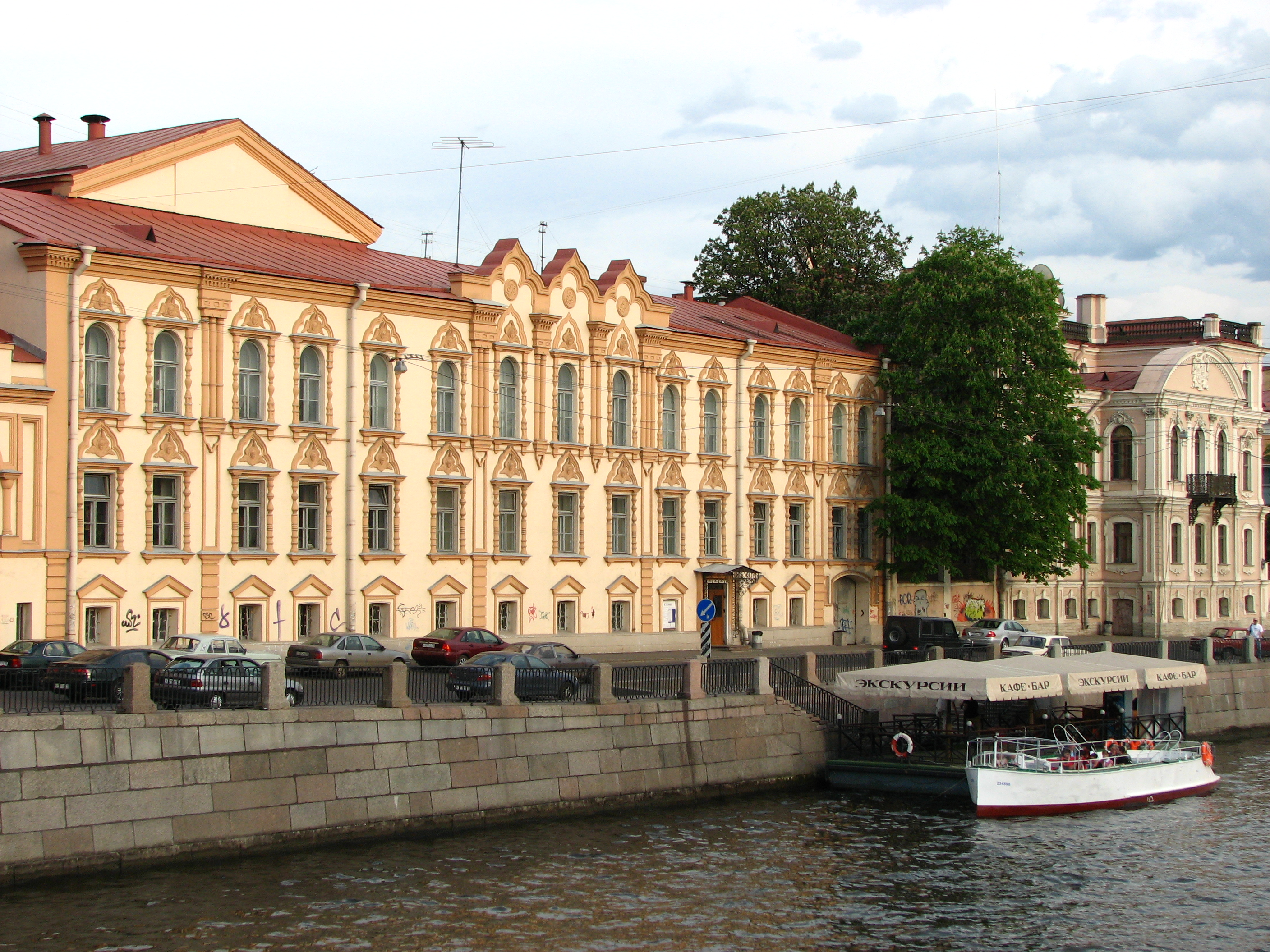 Saint Petersburg. Metochion of the Troitse-Sergieva Poustinia.